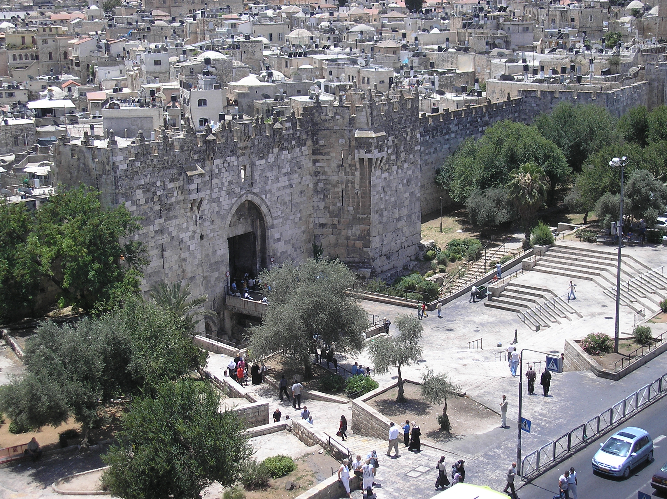 Damascus Gate from Shmidt's college